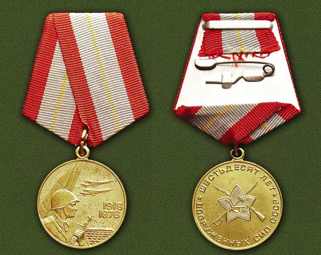 60 Years Since The Creation Of The Soviet Armed Forces medal.